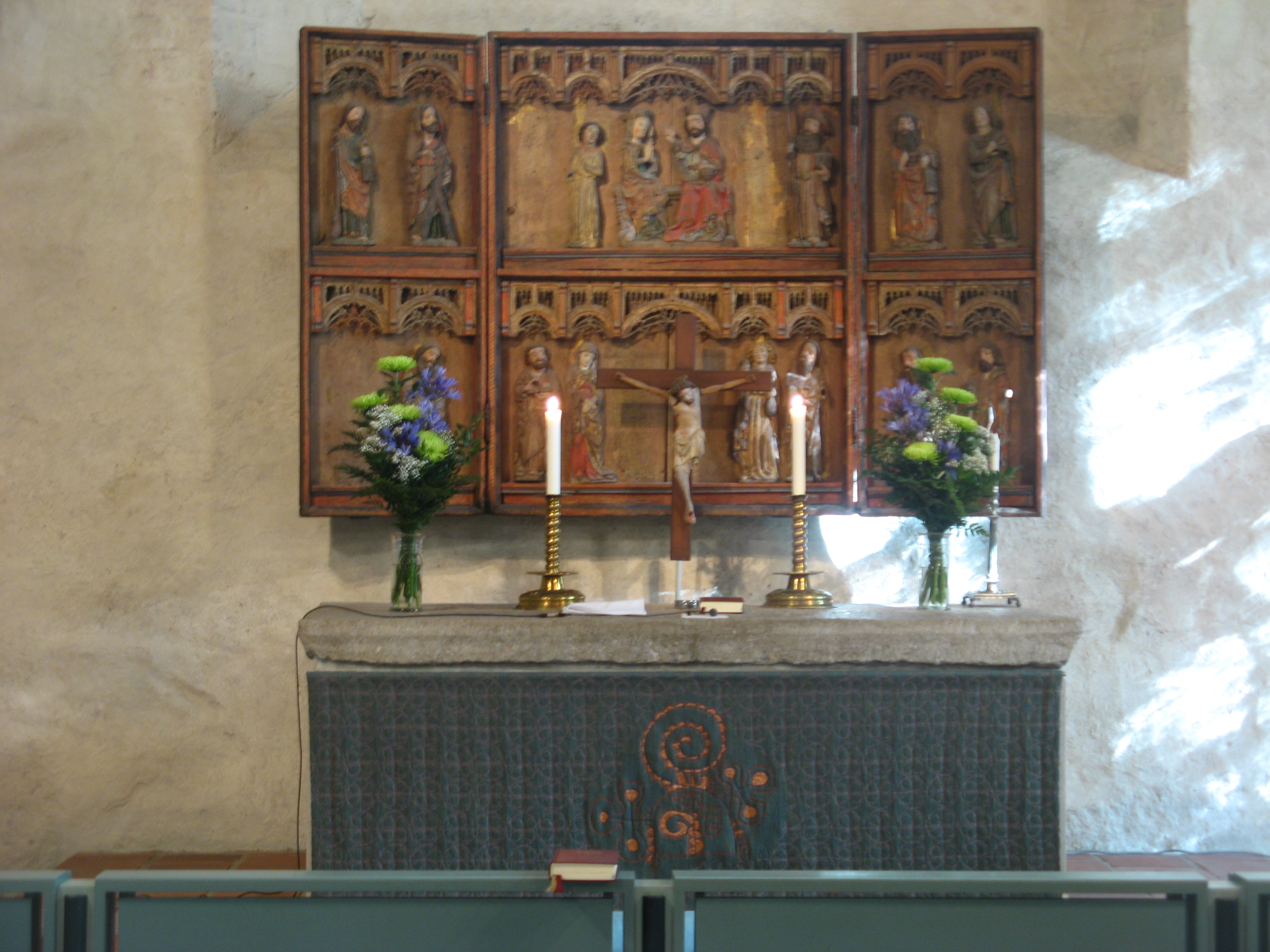 Altarpiece from Lübeck, made in the 15th century, and altar in Saint Mary's Church, Maaria. Several figures are missing. The crucifix is from the 14th century, possibly of domestic origin.